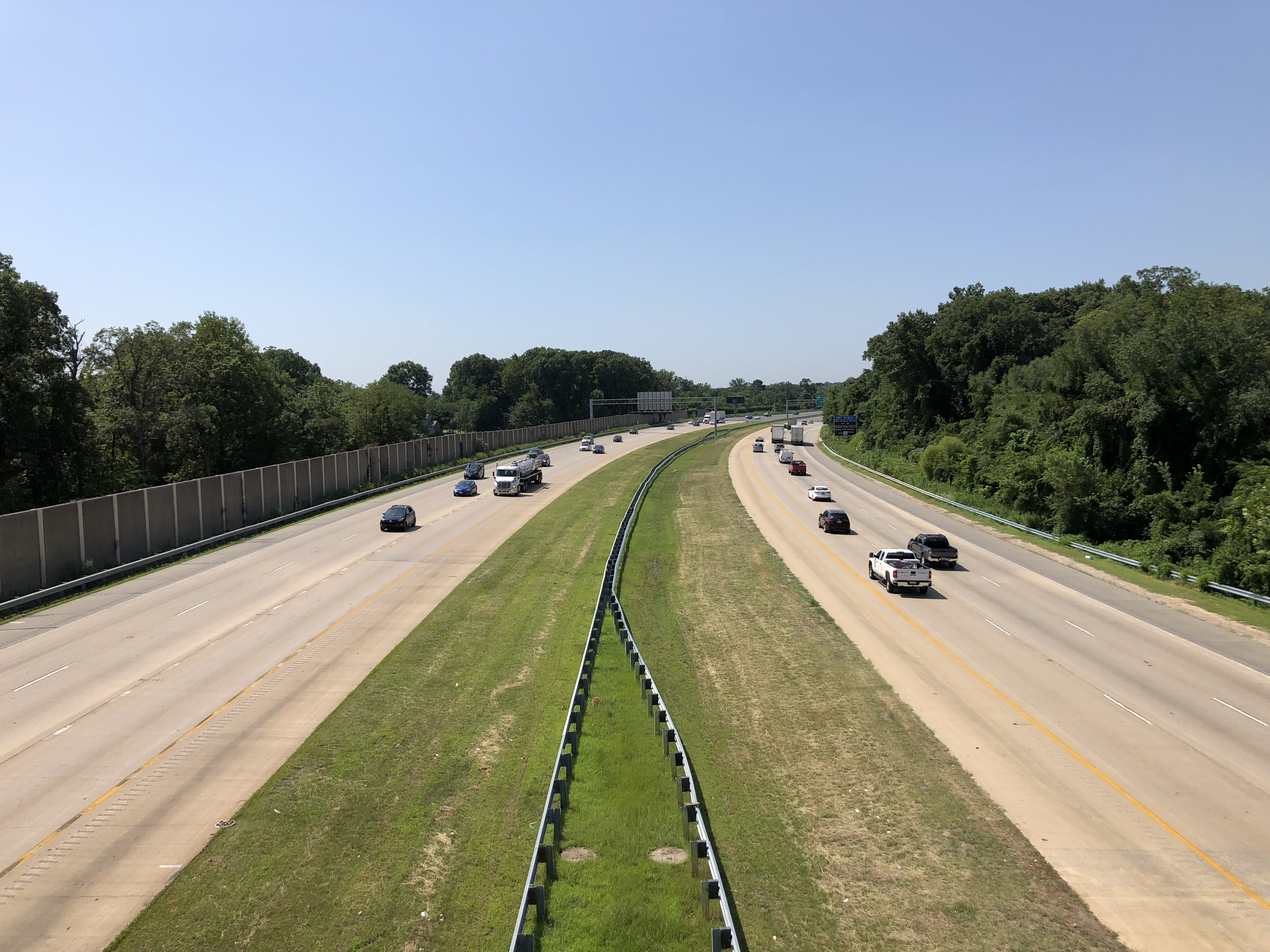 View south along Interstate 97 (Glen Burnie Bypass) from the overpass for Wellham Avenue in Ferndale, Anne Arundel County, Maryland